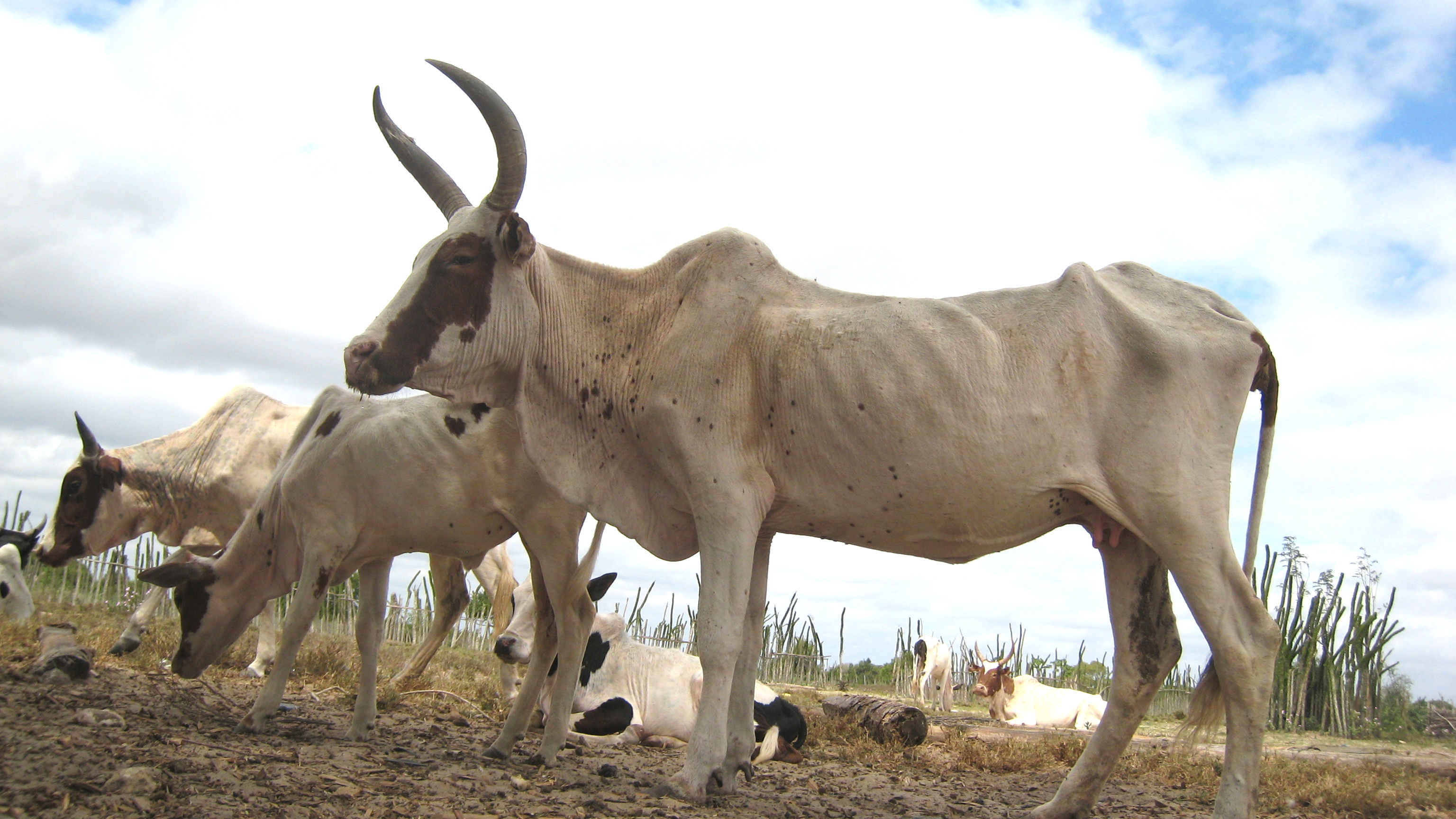 Zebu in Madagascar Photo taken in a small village somewhere near Beloha